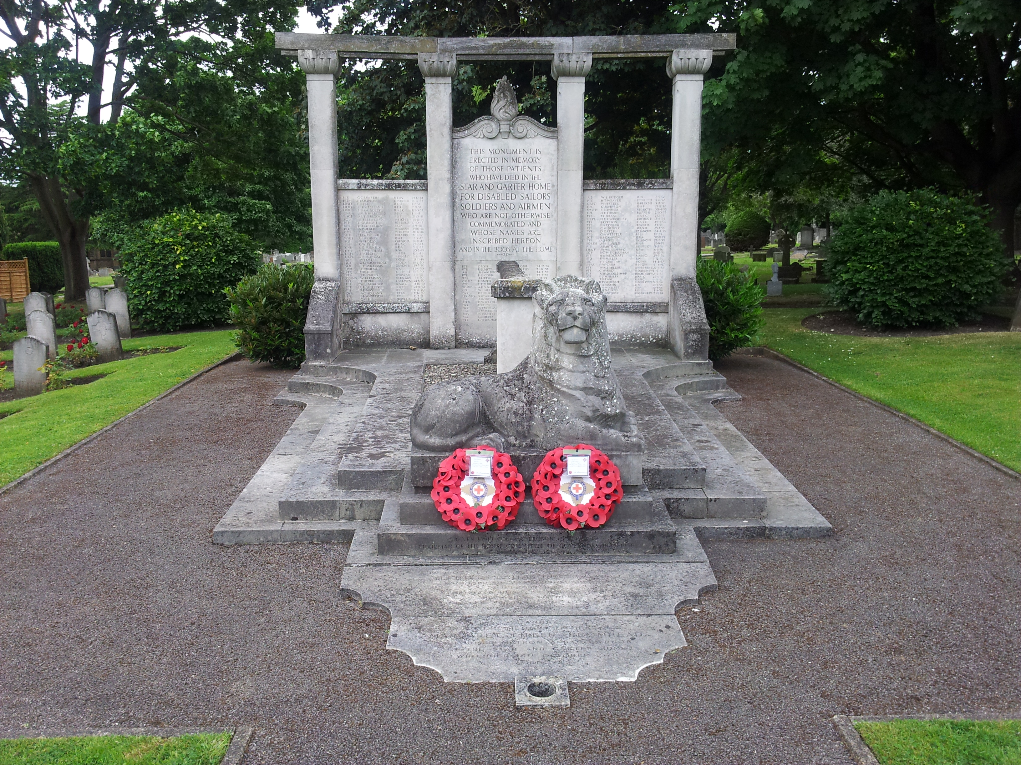 Bromhead memorial with wreaths